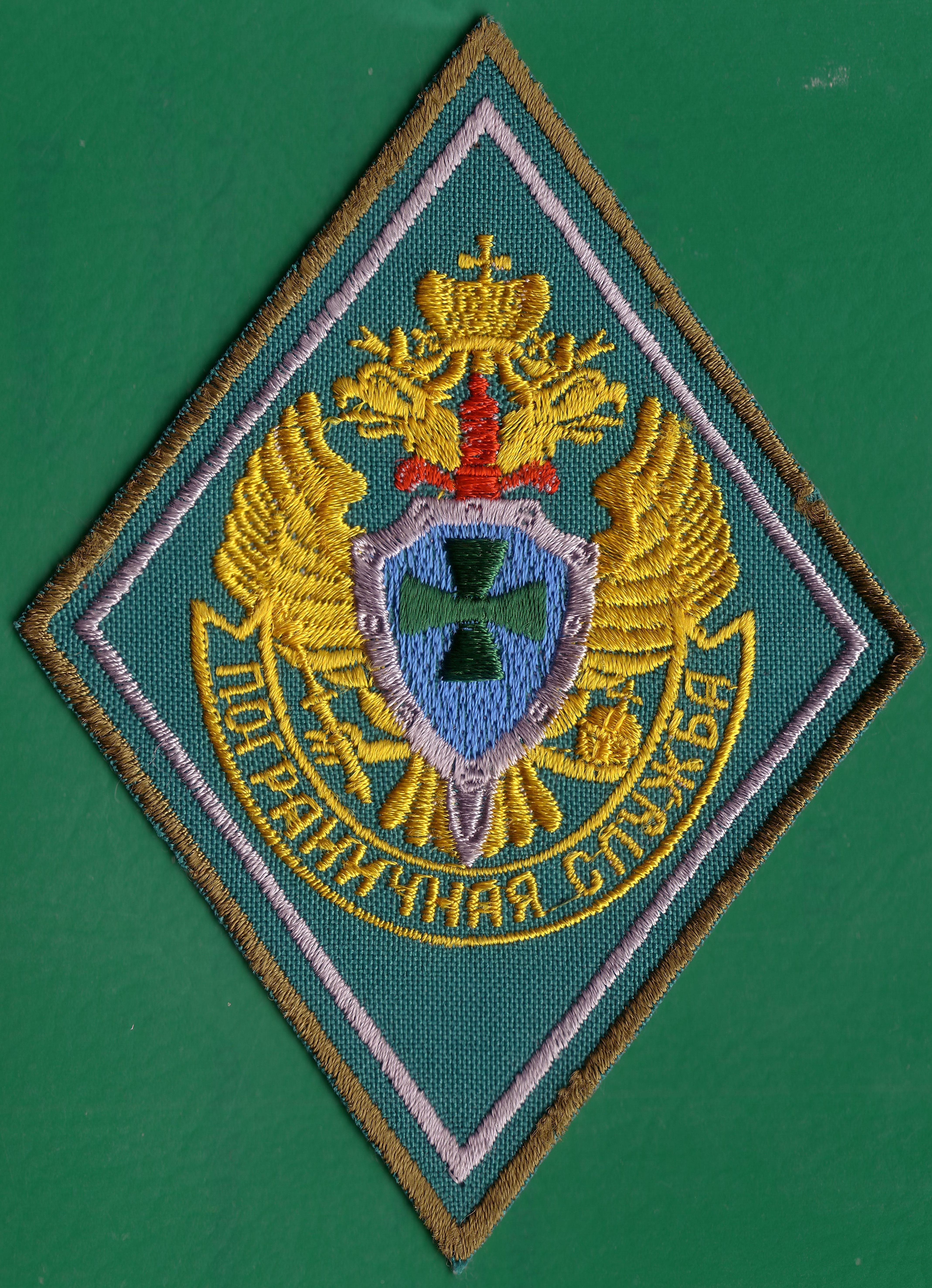 Chevron of the PS FSB Rossii, i.e. Border Guard Service of Russian Federation .